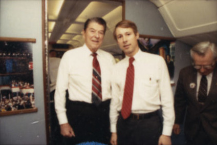 President Ronald Reagan (4-8) Departure via Air Force One to Michigan President Ronald Reagan, Guy Vander Jagt, Bill Broomfield, Fred Upton, Bill Scheutte, Carl Pursell, and Nick Rowe (Not in all photos) (9-28) Trip via Air Force One to Michigan President Ronald Reagan (29-32) Trip via Air Force One to Michigan